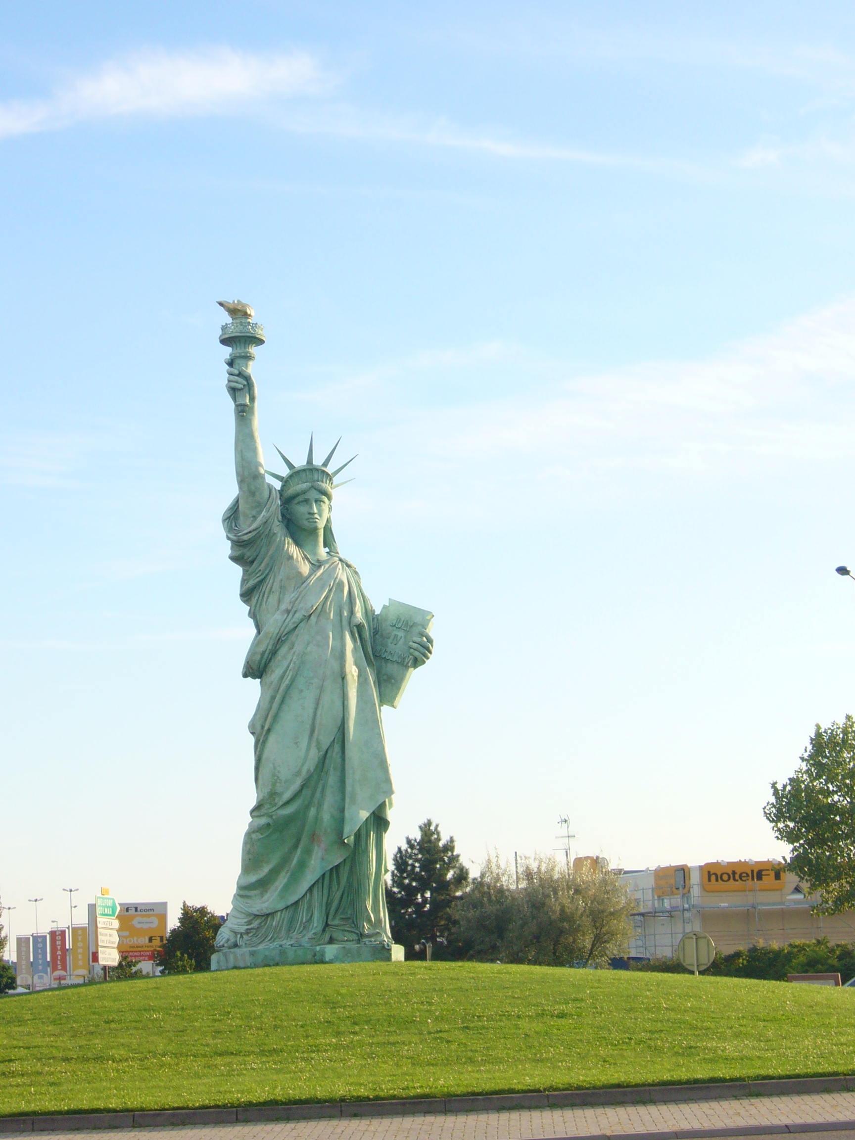 Replicas of the Statue of Liberty. Colmar